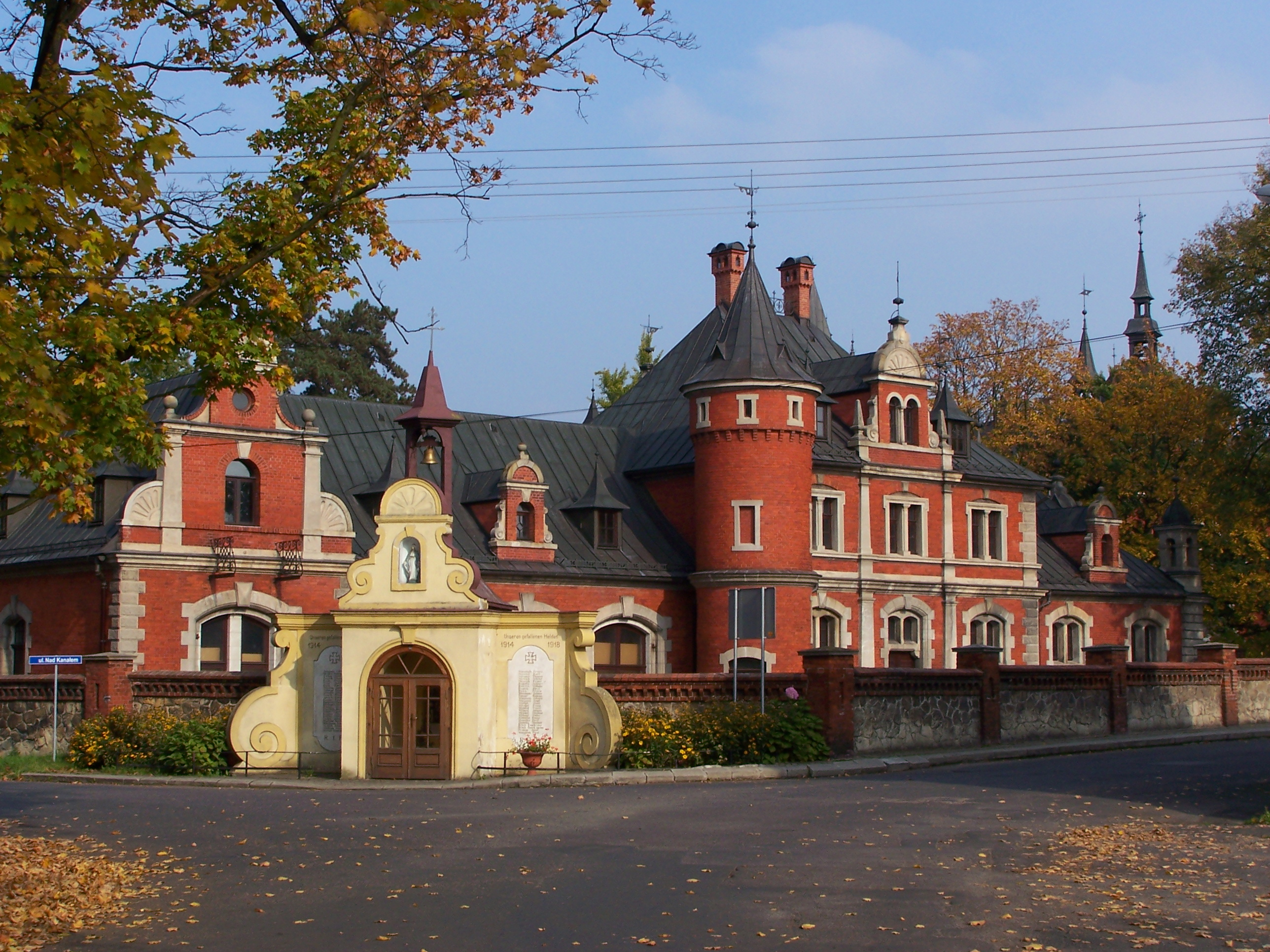 Carriage house (left) and Groom house (right) in Pławniowice (Poland).